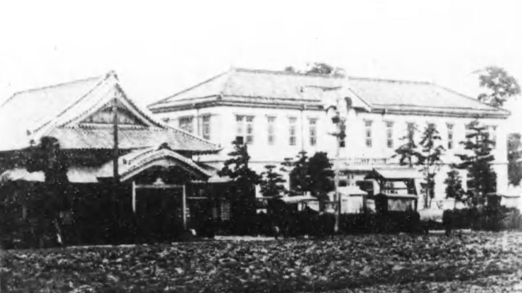 Minamiazumi district office.